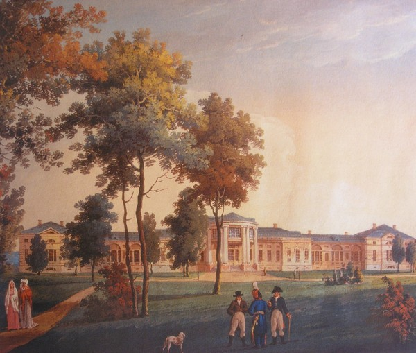 Razumovsky Residence in Yagotin